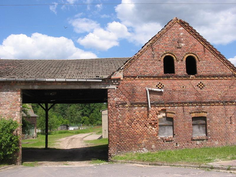 Barn in the village Trebitz, an incorporated part of the town Brück in Brandenburg, Germany.